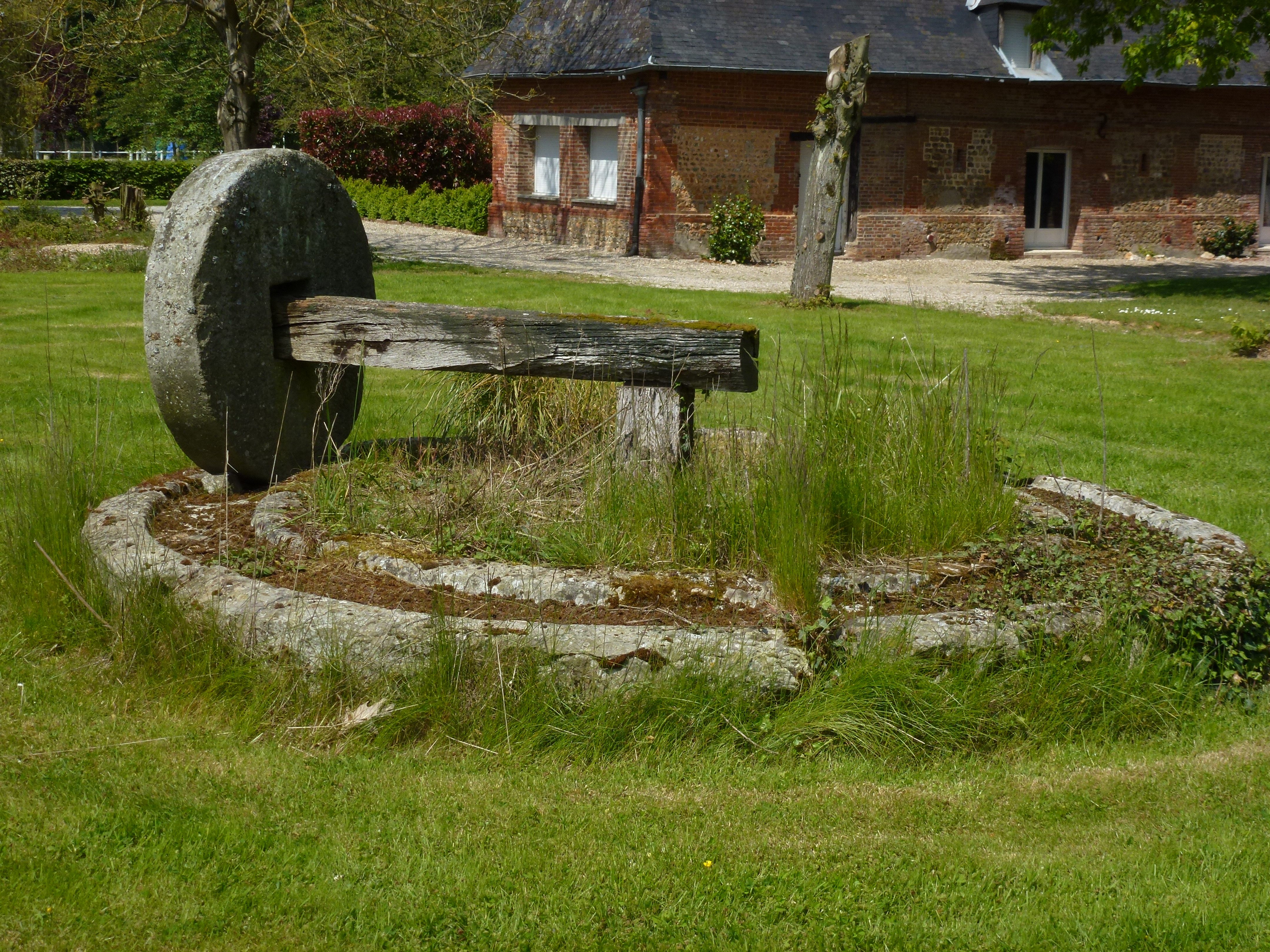 Saint-Meslin-du-Bosc (Eure, Fr) Pressoir (Horse-driven cider mill)